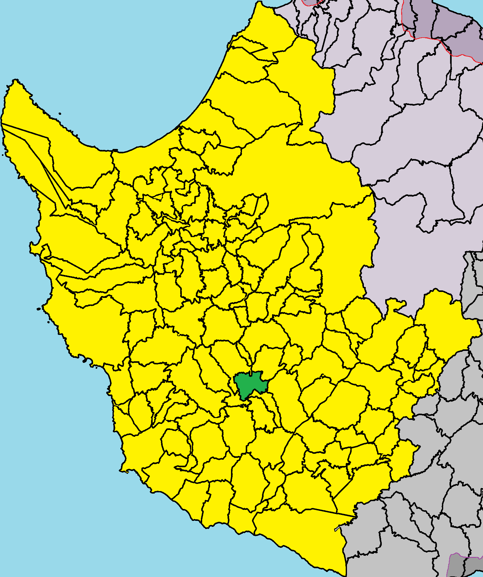 Pitargou in Paphos District.